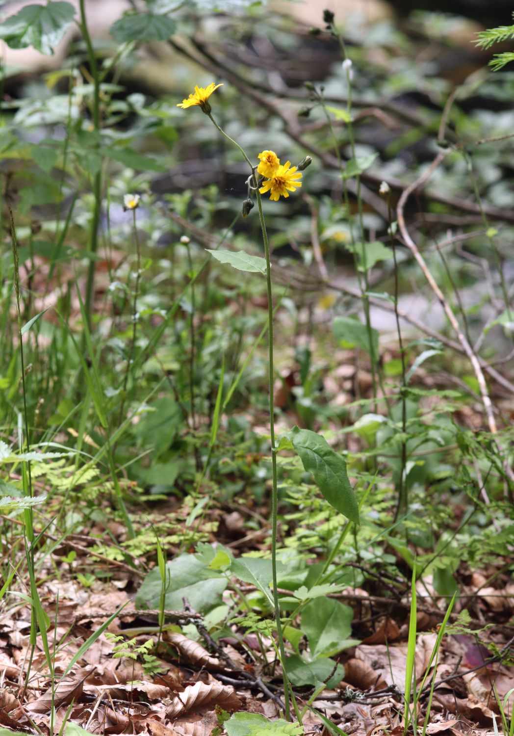 Flowering Hieracium albinum (H. umbrosum agg.) in Labský důl Valley, Krkonoše Mountains, Czech Republic. It is endemic species of Krkonoše.